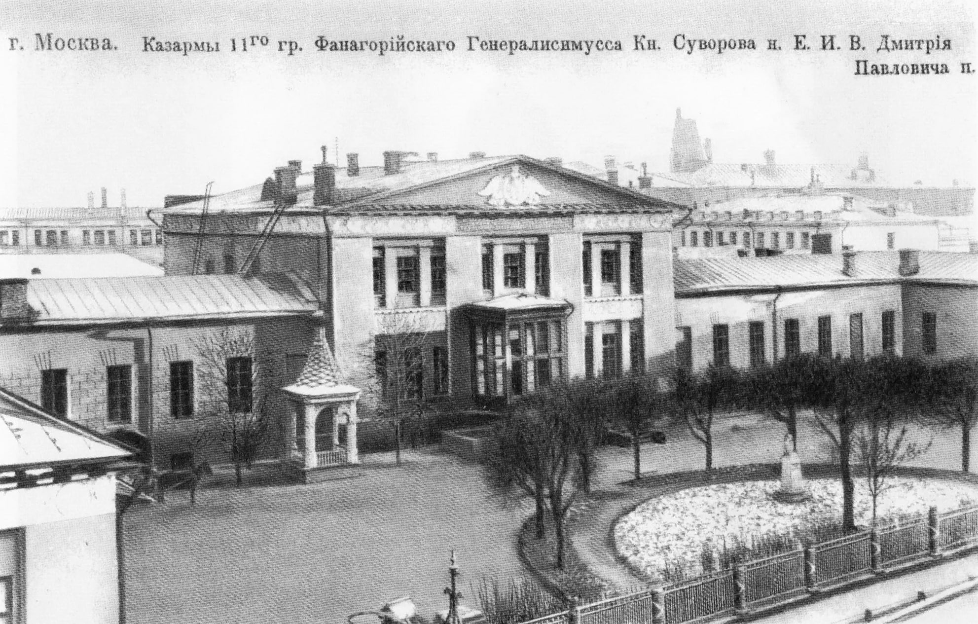 Fanagorian Barracks, Baumanskaya street, Moscow, Russia